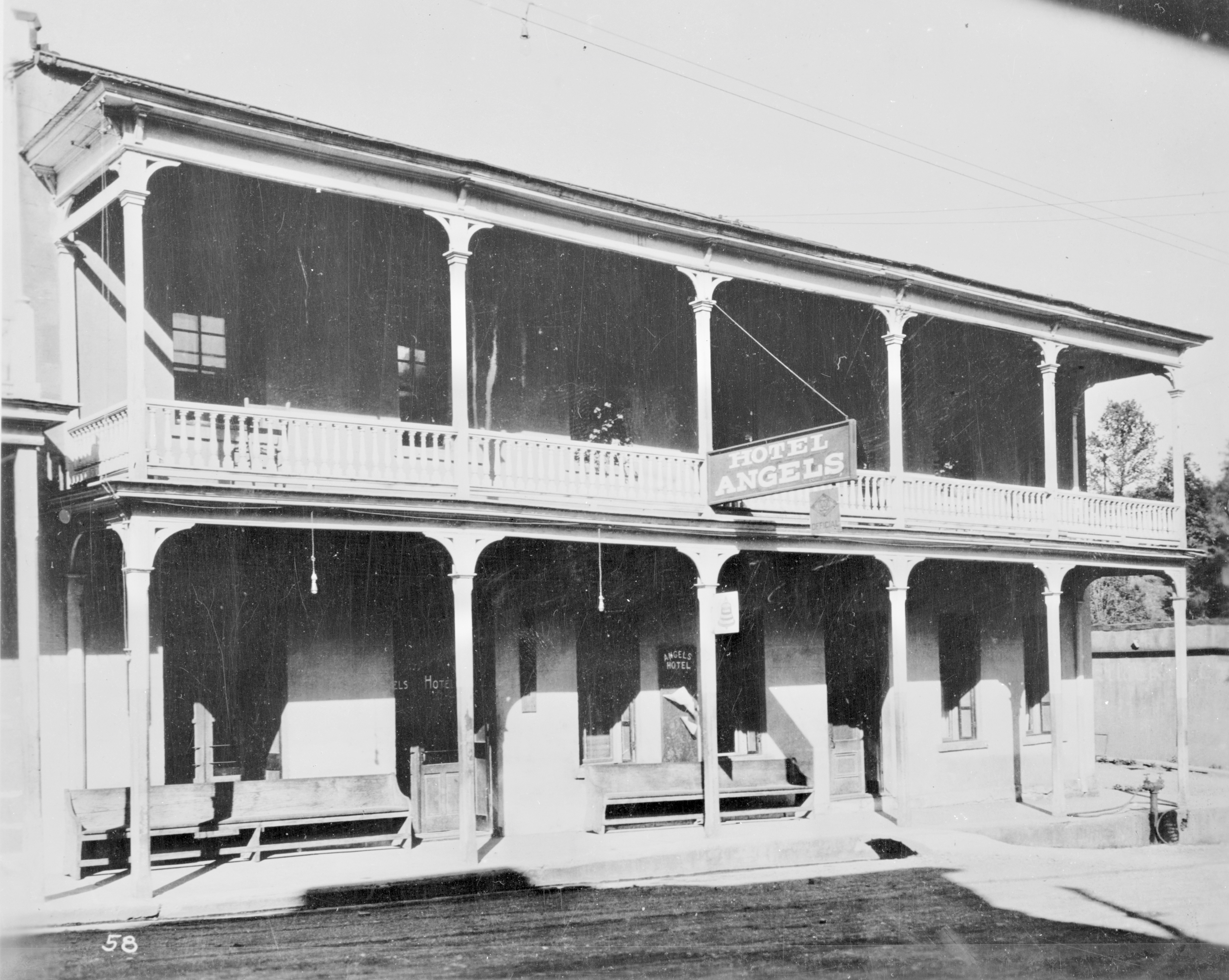 Exterior of the Angels Hotel, Angels Camp, California, USA, where Mark Twain heard the story that he wrote as "The Celebrated Jumping Frog of Calaveras County".